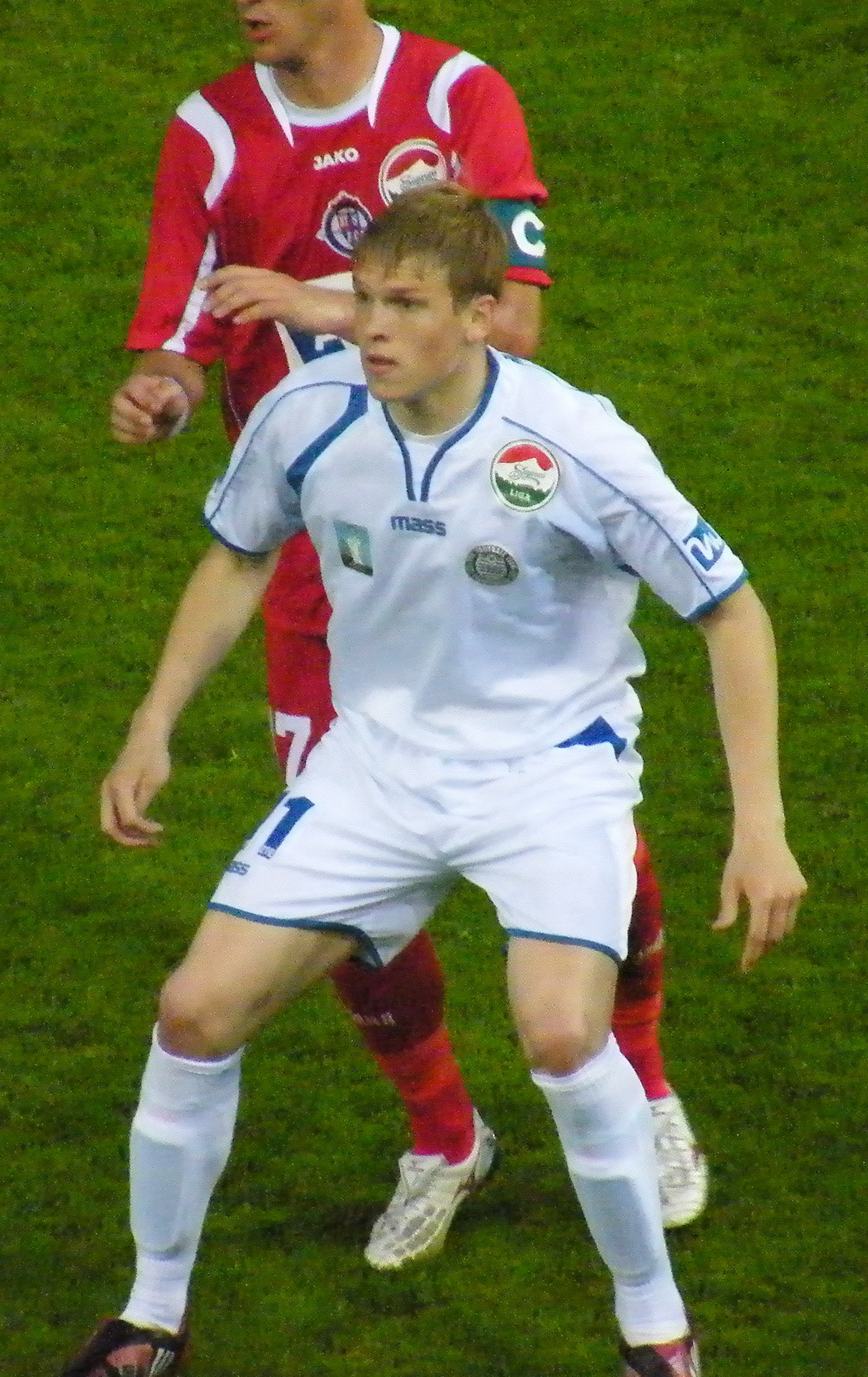 Artjoms Rudnevs Latvian football player